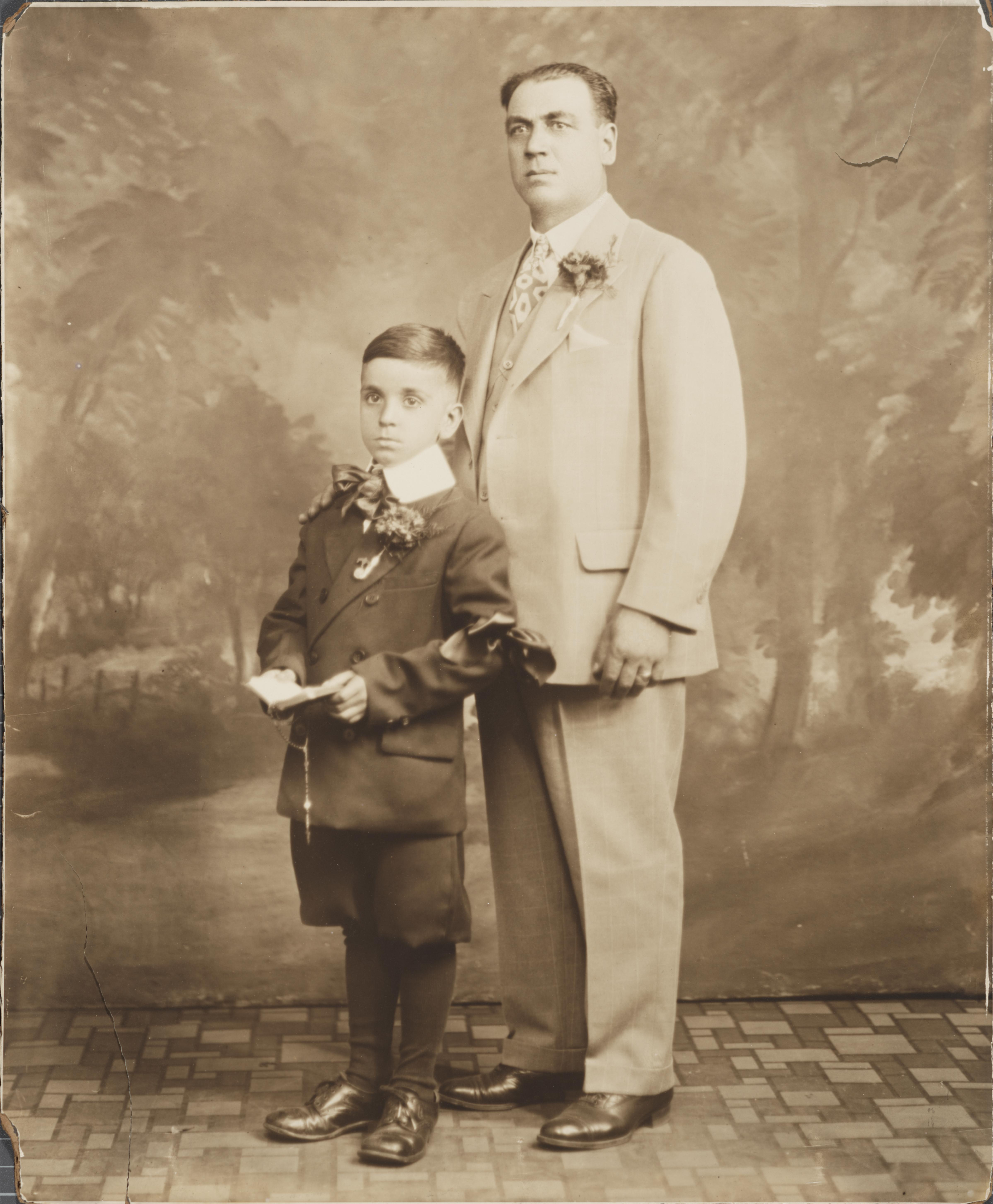 Description: Gasparo and son in formal pose. Photographer unknown. Gasparo, Oronzo, 1903-1969 Creator/Photographer: Unidentified photographer Medium: Black and white photographic print Dimensions: 43 cm x 36 cm Date: c. 1920 Persistent URL: Repository: Archives of American Art Accession number: aaa_miscphot_8920